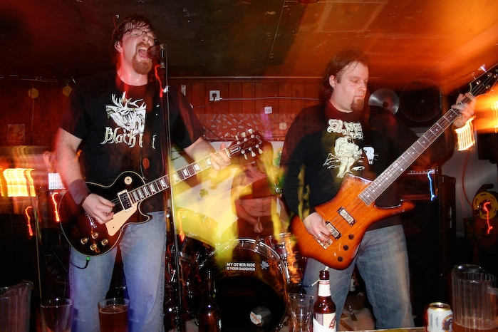 Mico de Noche performing at Bob's Java Jive in Tacoma, WA on March 1, 2008